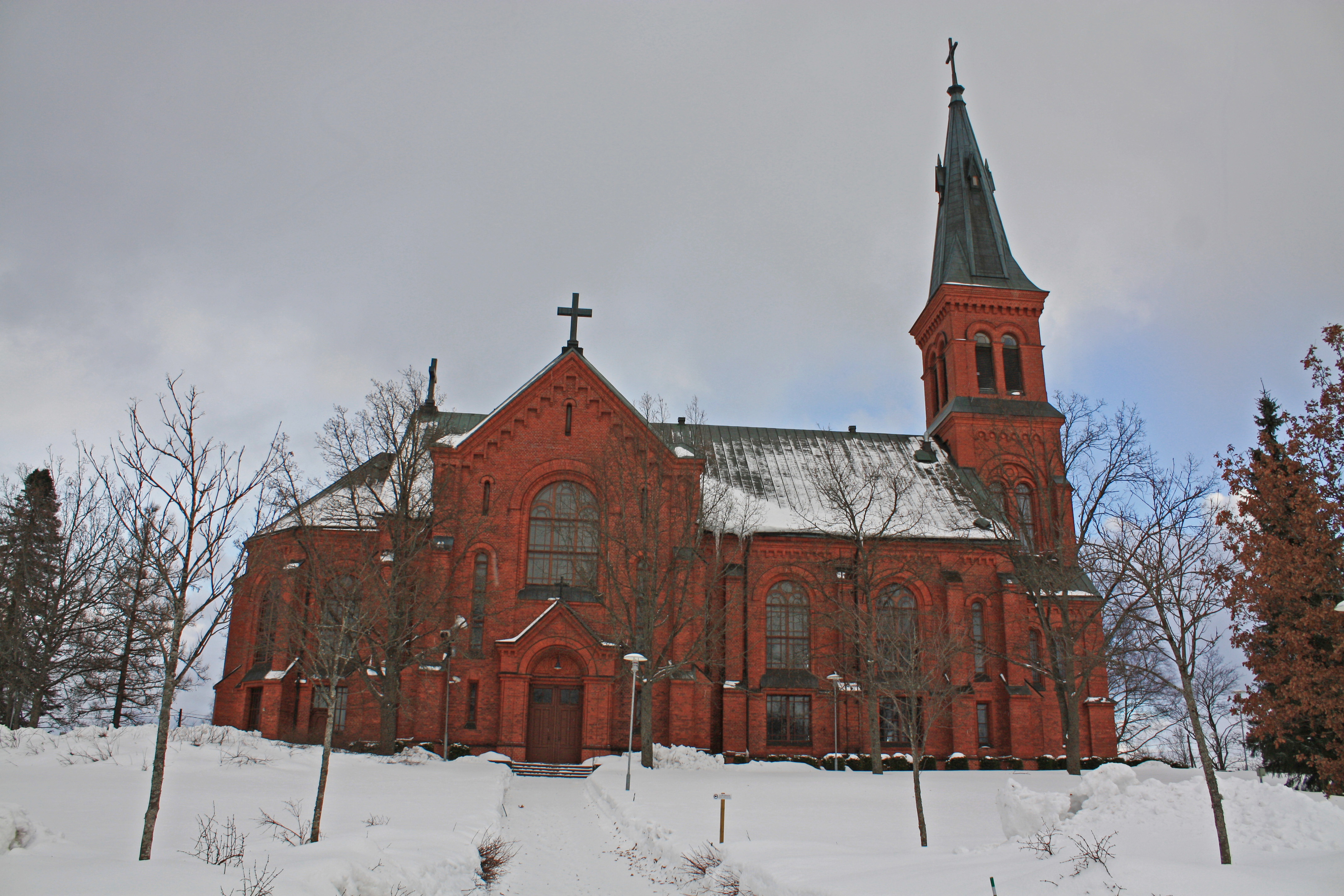 Sipoo New Church in winter